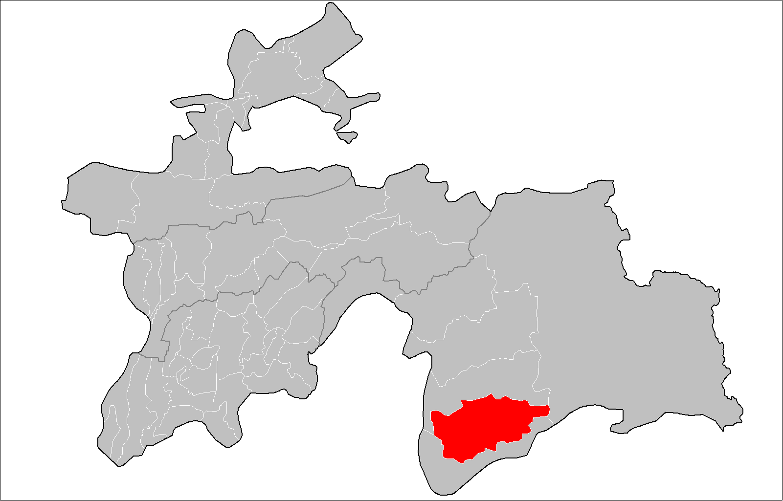 Location of Roshtqal'a District in Tajikistan